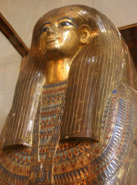 The gold gilded third, innermost coffin of Tjuyu (Thuya) from Tomb KV46 in the Valley of the Kings. It was discovered in 1905 by James Quibell who worked on an Egyptian excavation project funded by the wealthy American lawyer, Theodore M. Davis. Now located in the Cairo Museum in Egypt.